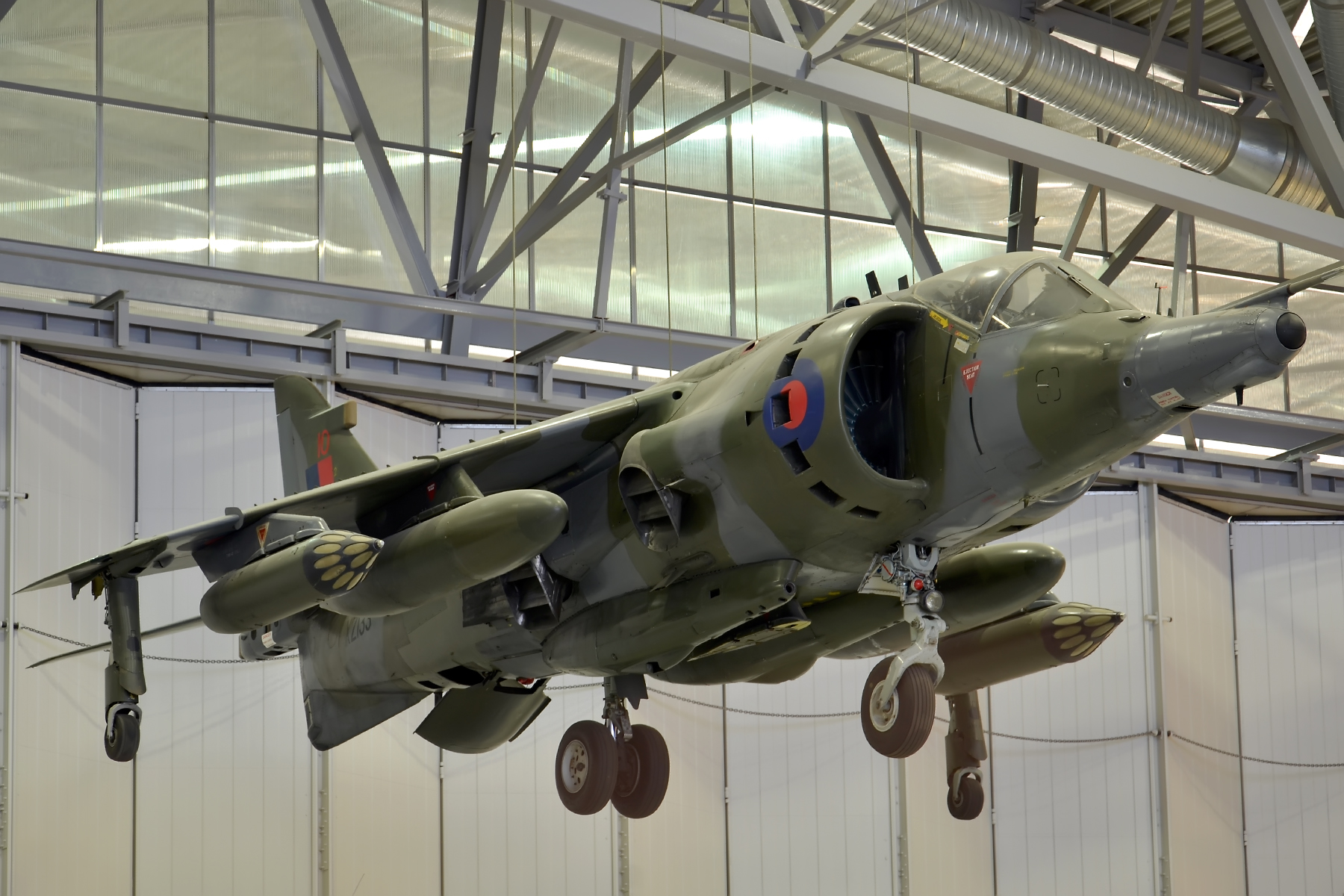 Duxford Imperial War Museum - Suspended from the ceiling of the AirSpace Hanger it almost looks like it's in the hover. This Harrier is a Falklands war veteran.